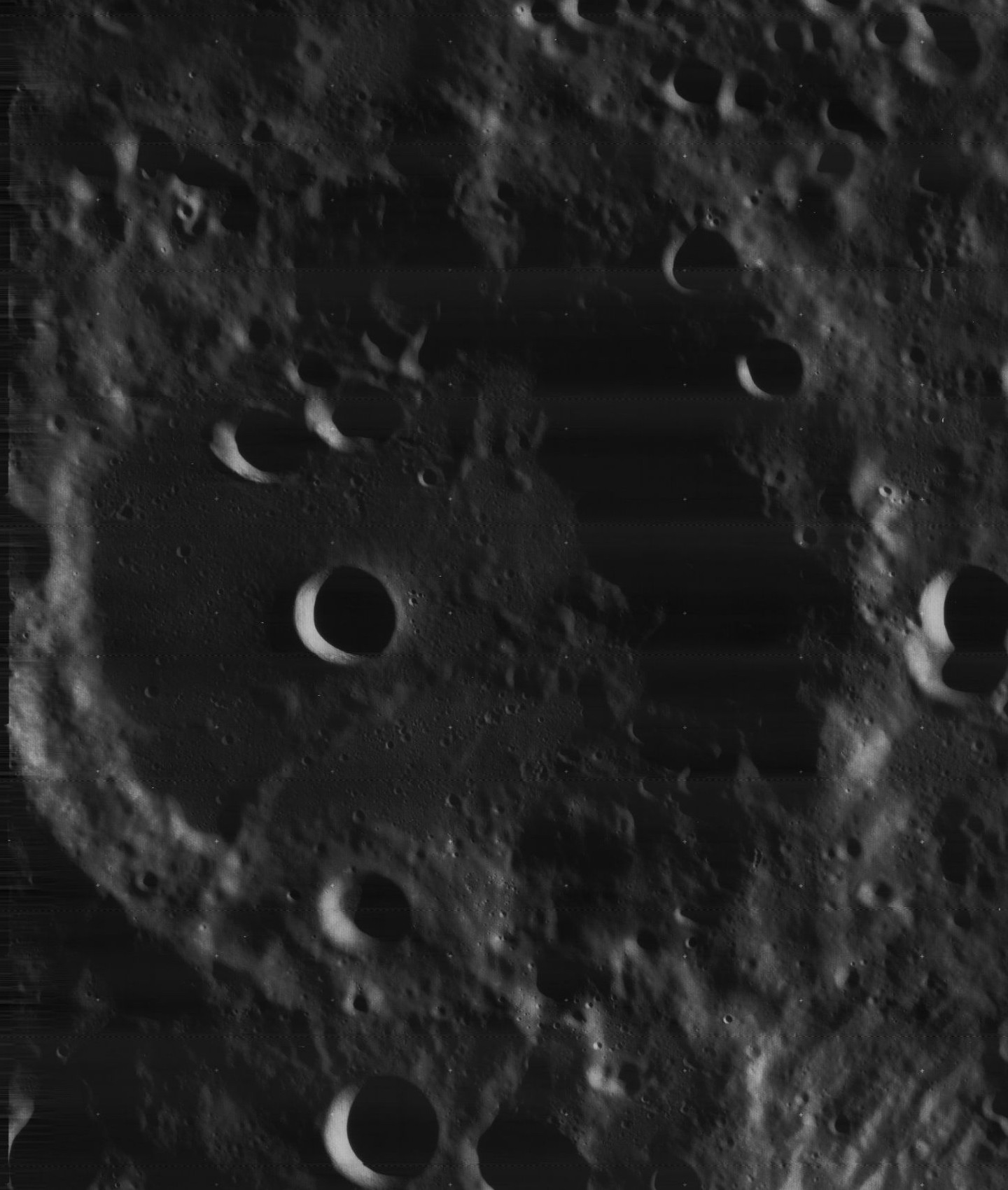 Scheiner crater, on the moon